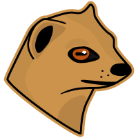 openEuphoria mascot